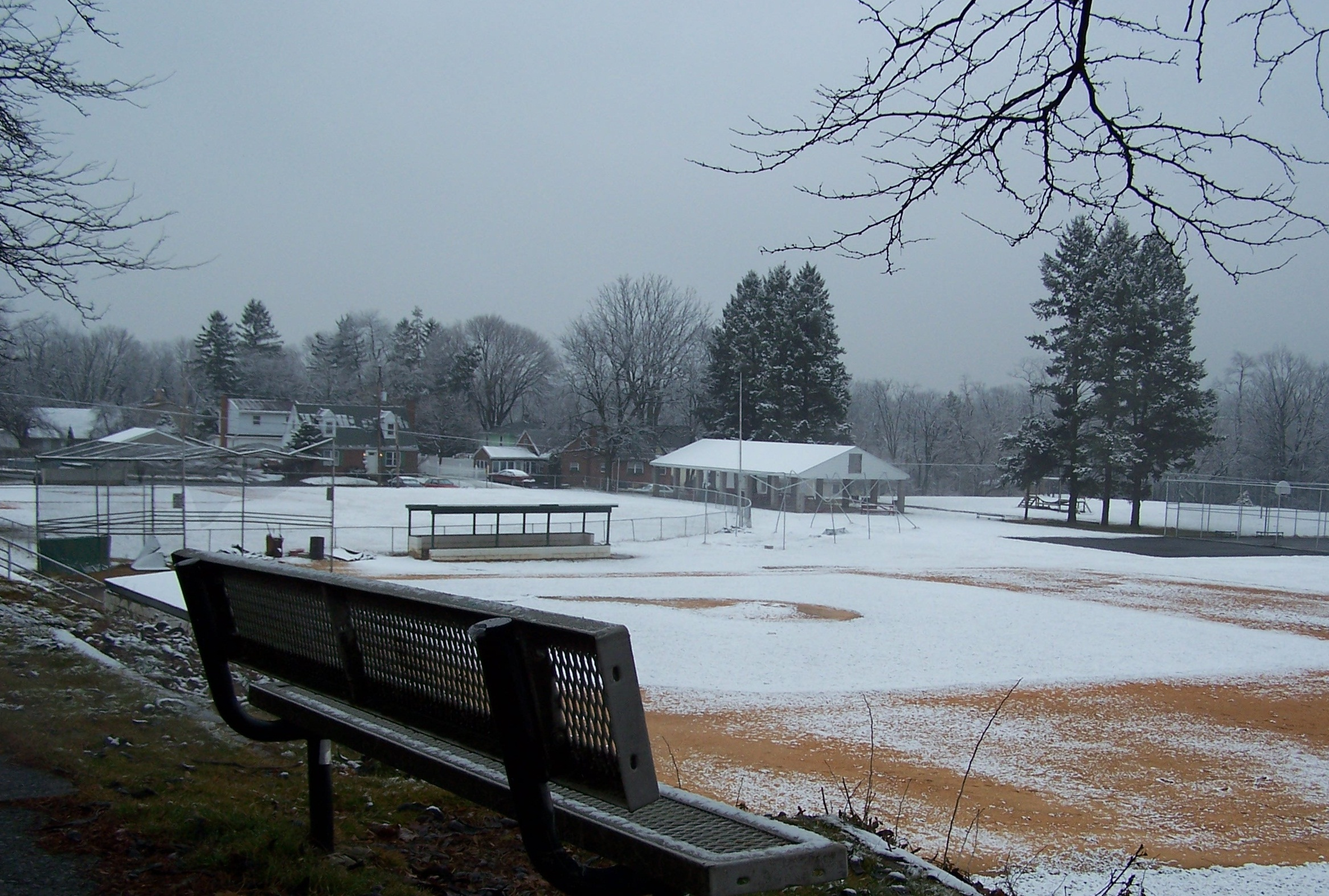 Penbrook Park, with dusting of snow, showing baseball fields, concession stand, picnic pavilion, play structure and basketball courts. The tree line in the distance to the right is part of the adjoining Harrisburg region's Capital Area Greenbelt. Looking Southwest from Boas Street, near the site of the former swimming pool.